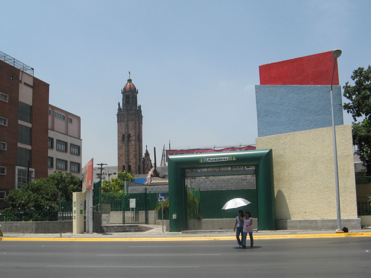 Fundadores Station — on Line 2 of the Monterrey Metro.